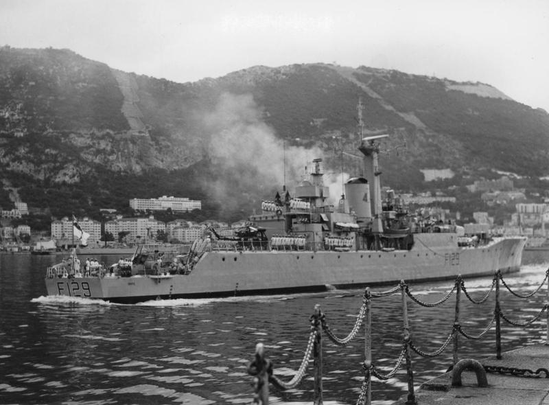 HMS Rhyl, c1970 (IWM HU129956)